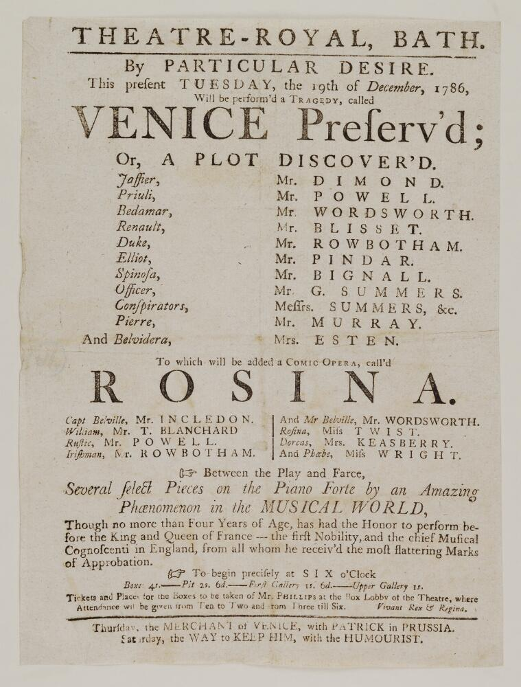 Playbill of Theatre Royal, Tuesday, the 19th of December, 1786, announcing Venice preserv'd; or, A plot discover'd &c.; Venice preserv'd; or, A plot discover'd; Rosina; Juvenile pianist; Merchant of Venice; Patrick in Prussia; Way to keep him; Humourist; [Playbill of Theatre Royal, Tuesday, the 19th of December, 1786, announcing Venice preserv'd; or, A plot discover'd &c.]